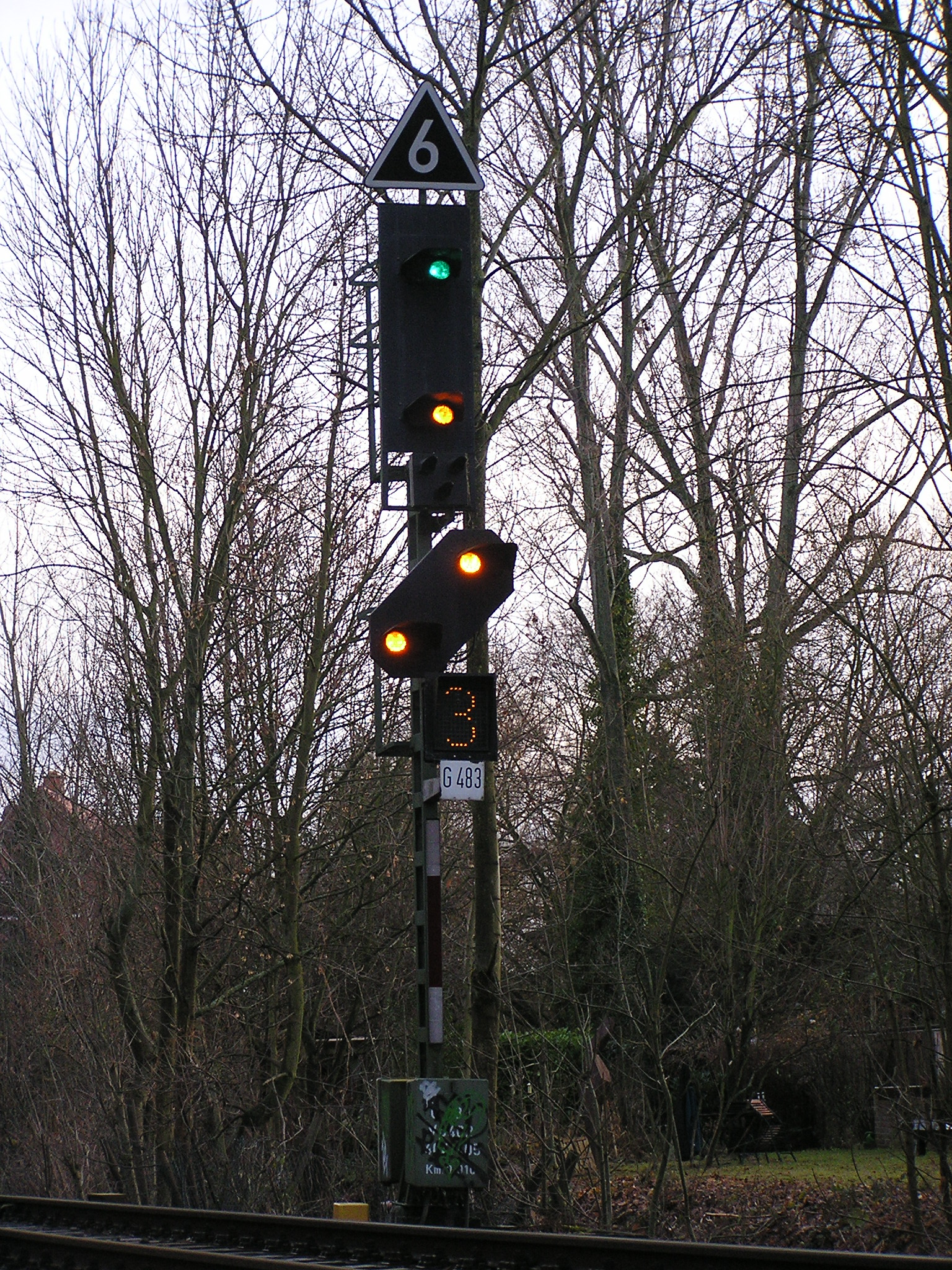 Entry signal showing Hp 2 (proceed at reduced speed). The plate on the top is Zs 3 (meaning 60 km/h). Because the train will run on an ending track the distant signal shows Vr 0 (expect stop) and Zs 3v (the yellow digit 3) annonuces a limit of 30 km/h.